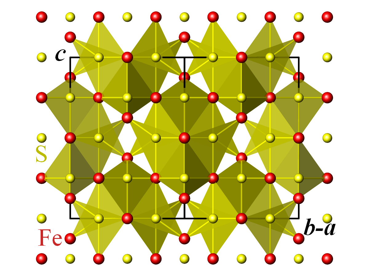 Crystal structure of greigite FeIIFeIII2S4, space group Fd3m, projected along the [110] direction, with emphasis on the SFe4 tetrahedra. The iron atoms are represented in red and the sulfur atoms in yellow. Image drawn with the program ATOMS version 5.1. Data source: B. J. Skinner, F. S. Grimaldi et al., Greigite, the thio-spinel of iron; a new mineral, Am. Mineral., vol. 49, no 5-6, 1964, p. 543-555.